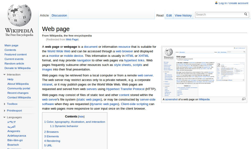 A screenshot of a web page in 2010.